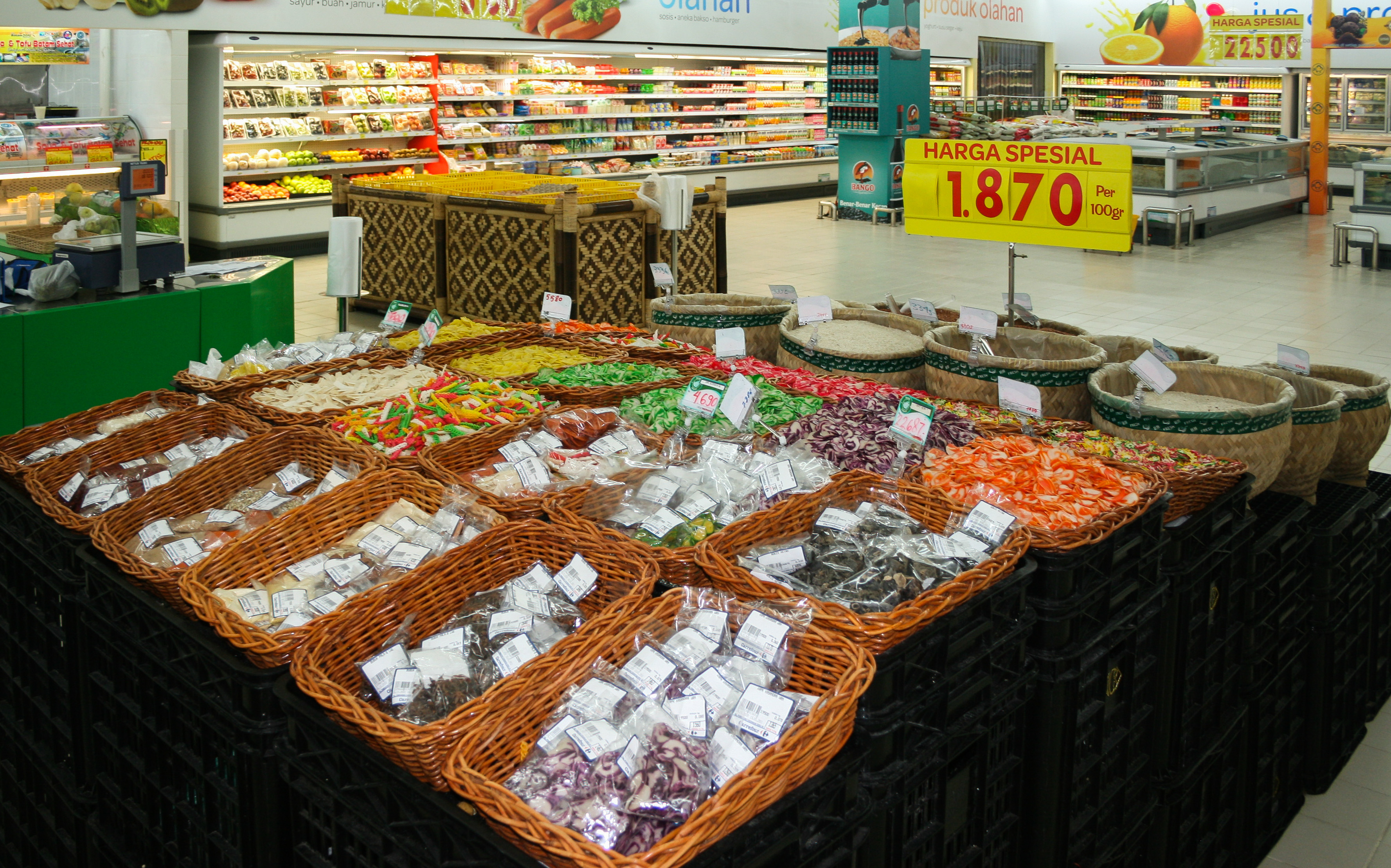 Goods in a hypermarket, Batam, Indonesia